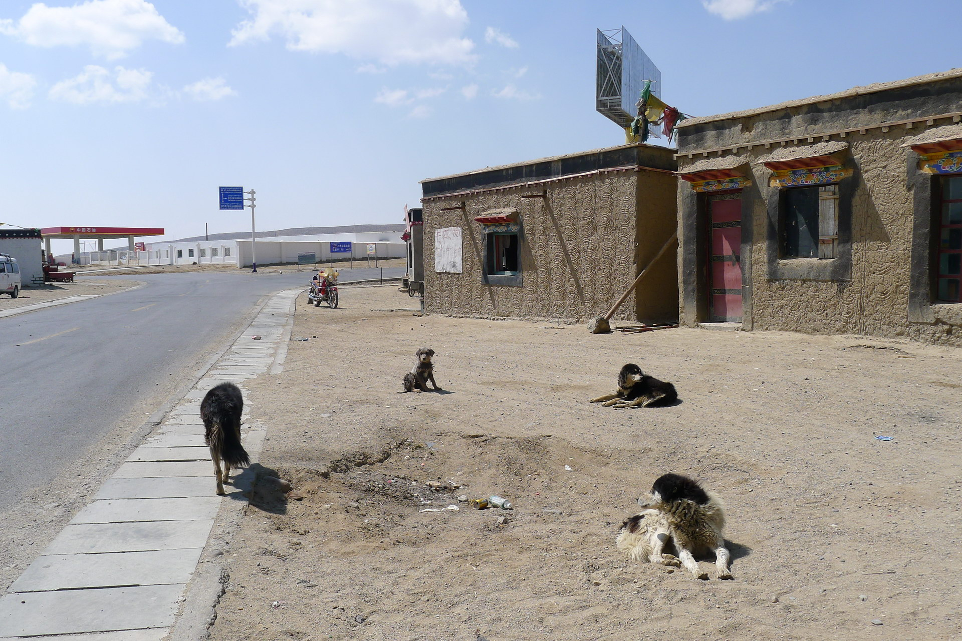 Stray dogs at CNPC gas station in Barga Township, Tibet